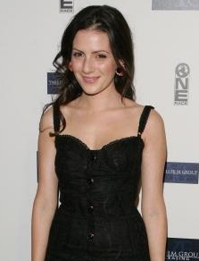 Aleksa Palladino at the premiere of "Find Me Guilty"